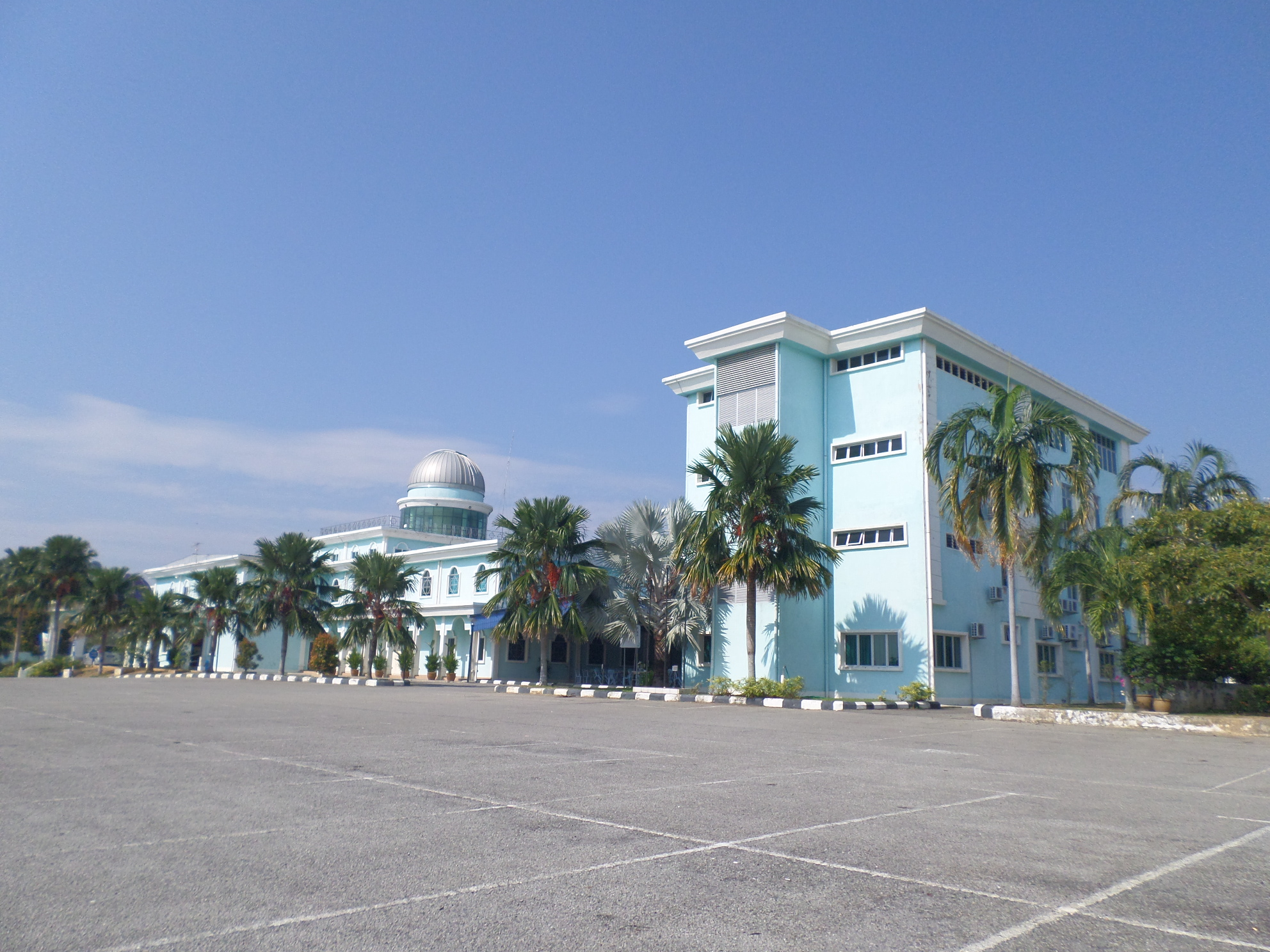 Al-Khawarizmi Astronomy Complex, Masjid Tanah, Alor Gajah, Melaka, MalaysiaBahasa Melayu: Kompleks Falak Al-Khawarizmi, Masjid Tanah, Alor Gajah, Melaka, Malaysia